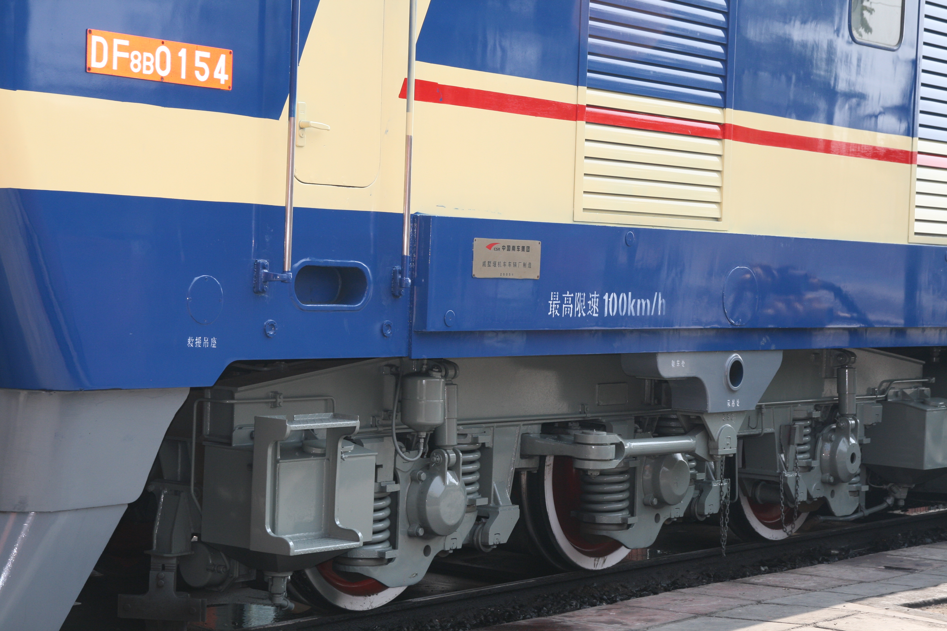 DB8B 0154 closeup of the side including plaque, speed restriction and wheels. Seen at Fengtai Depot, Beijing